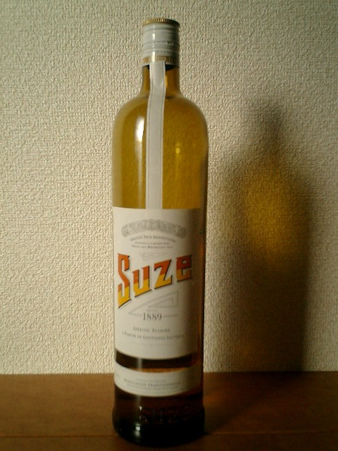 Bottle of SUZE